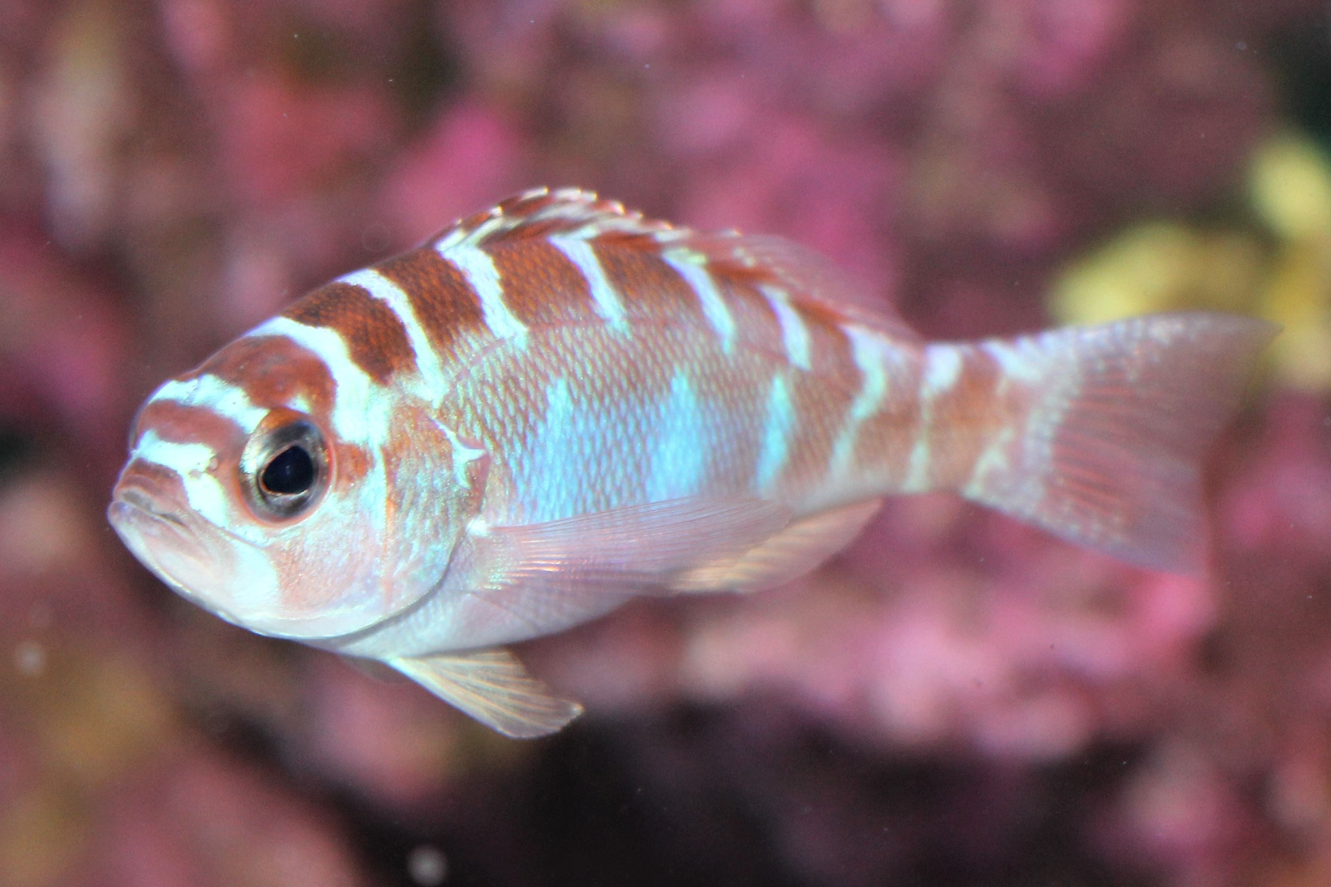 Chalk bass (Serranus tortugarum) in Southend-on-Sea aquarium, England.